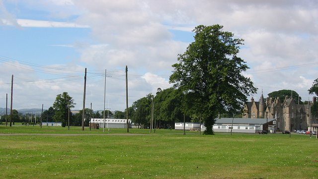 Ingliston House. Royal Highland Show venue.